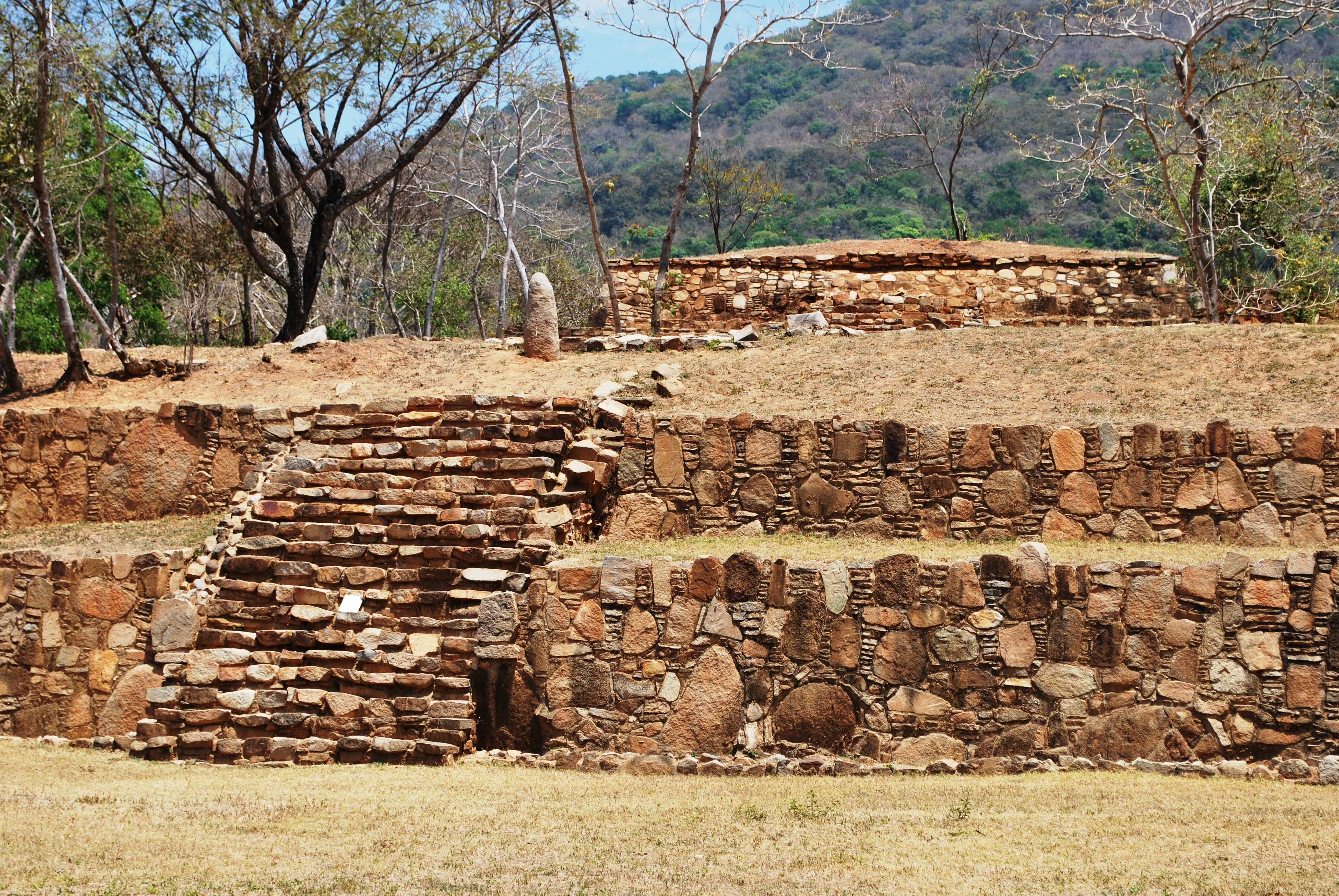 View of the Palace at Tehuacalco